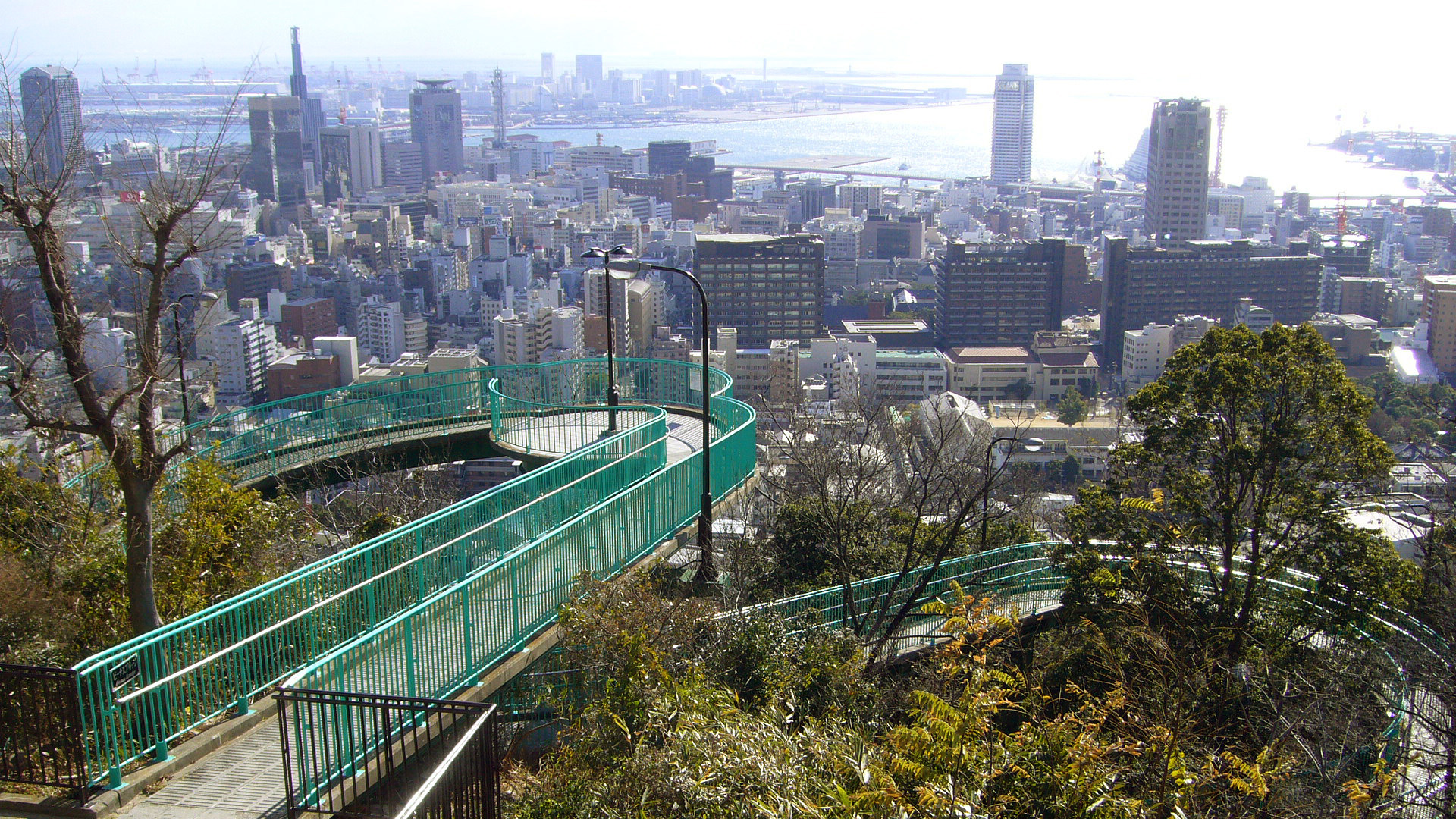 Venus Bridge in Kobe, Japan